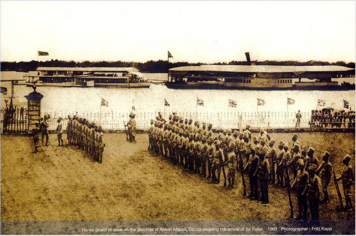 Sir Joseph Bampfylde Fuller, first Lieutenant Governor of the new province of Eastern Bengal and Assam, arrives at Ahsan Manzil in Dhaka in 1905